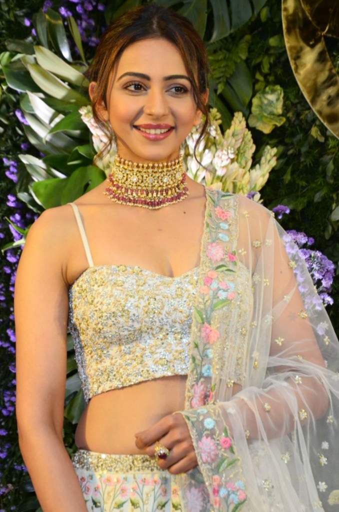 Rakul Preet Singh graces Saina Nehwal’s wedding reception